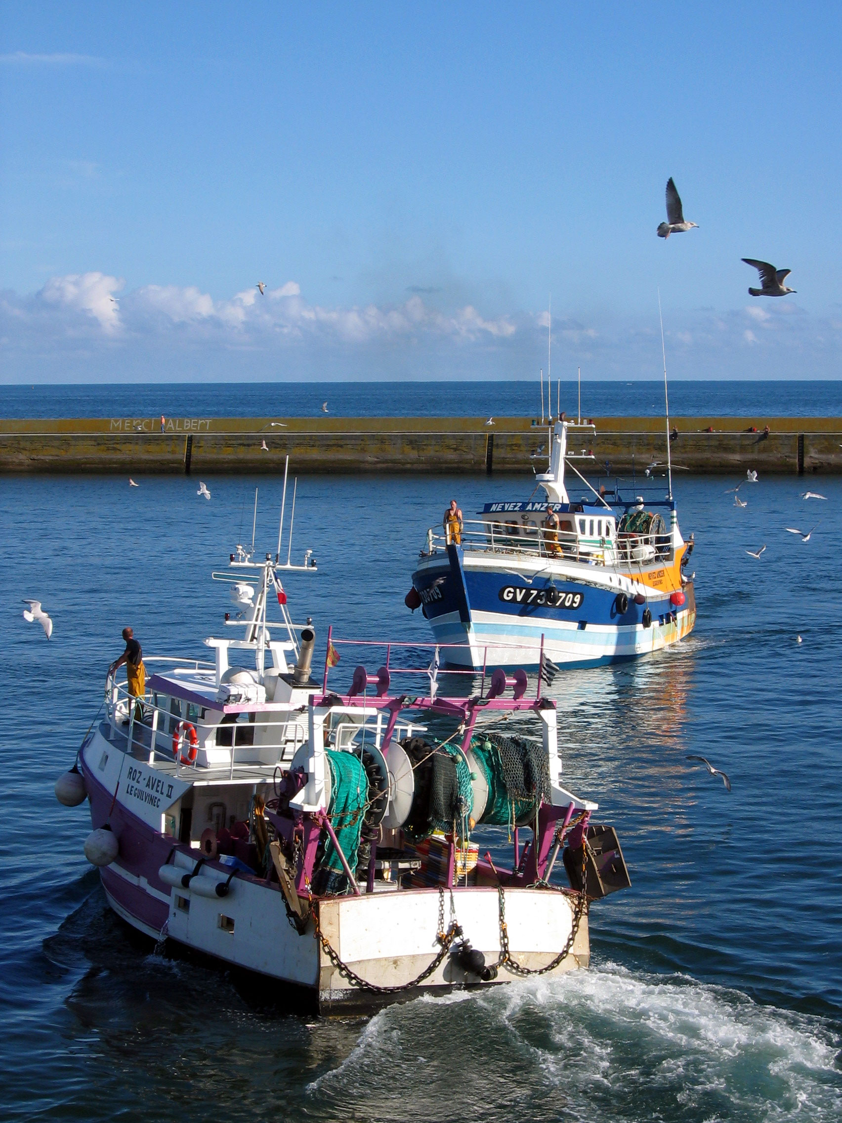 Coming home - Boot in the harbor